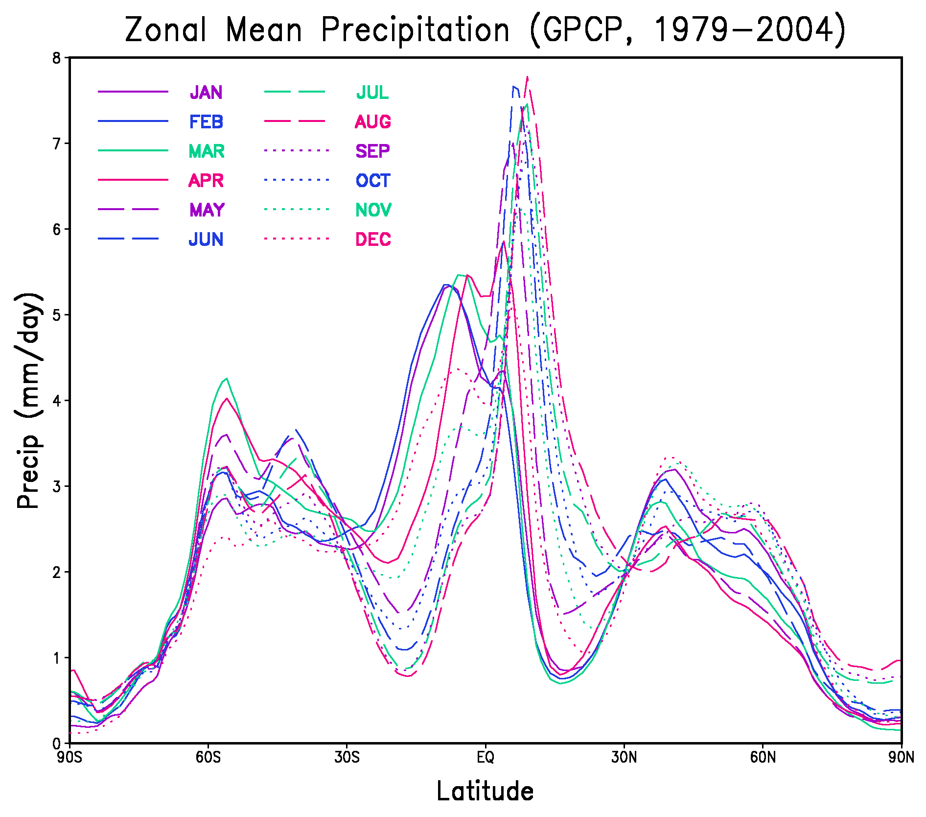 A graph showing the montly mean zonal precipitation as a function of latitude.